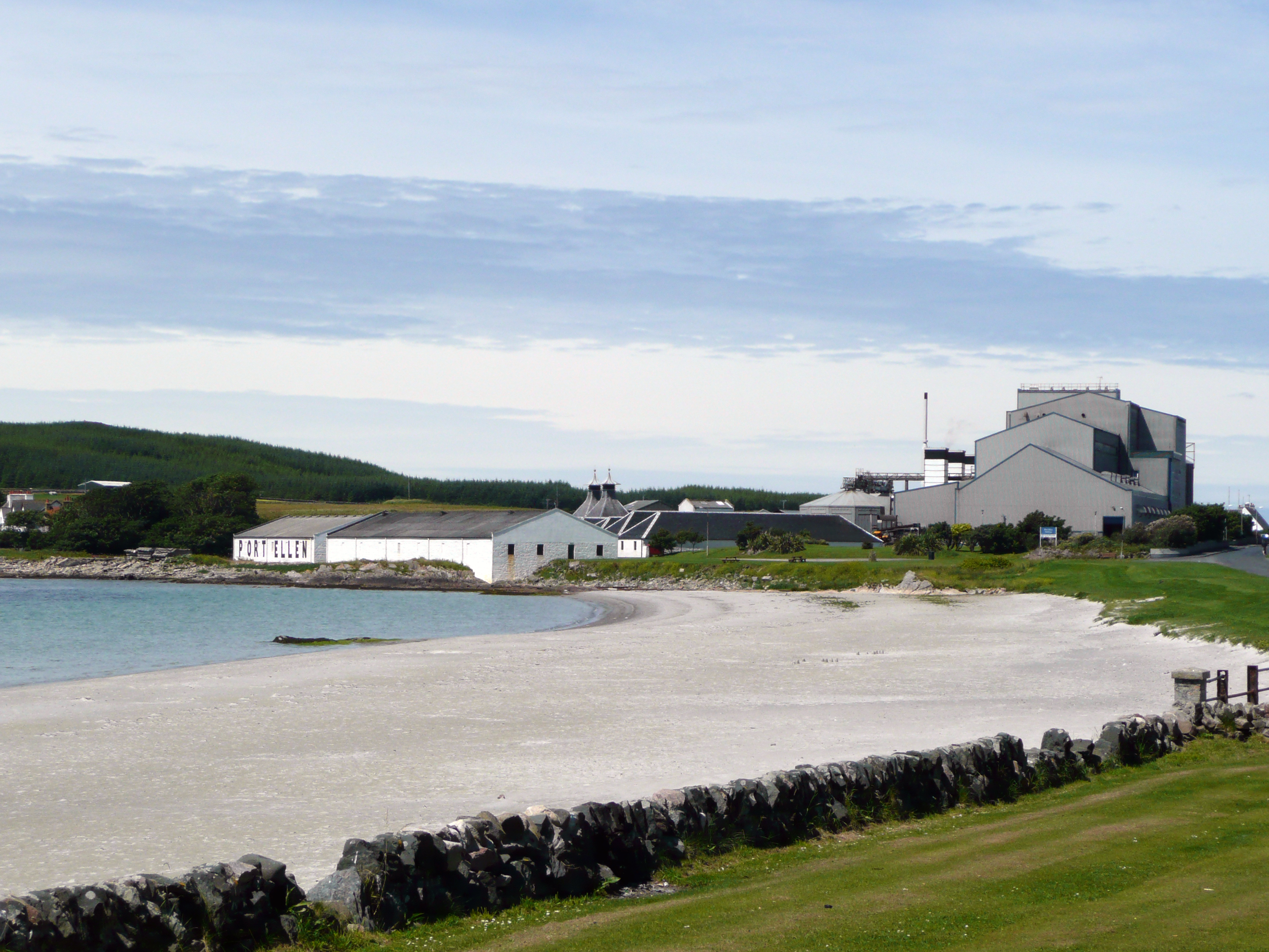 Port Ellen distillery.